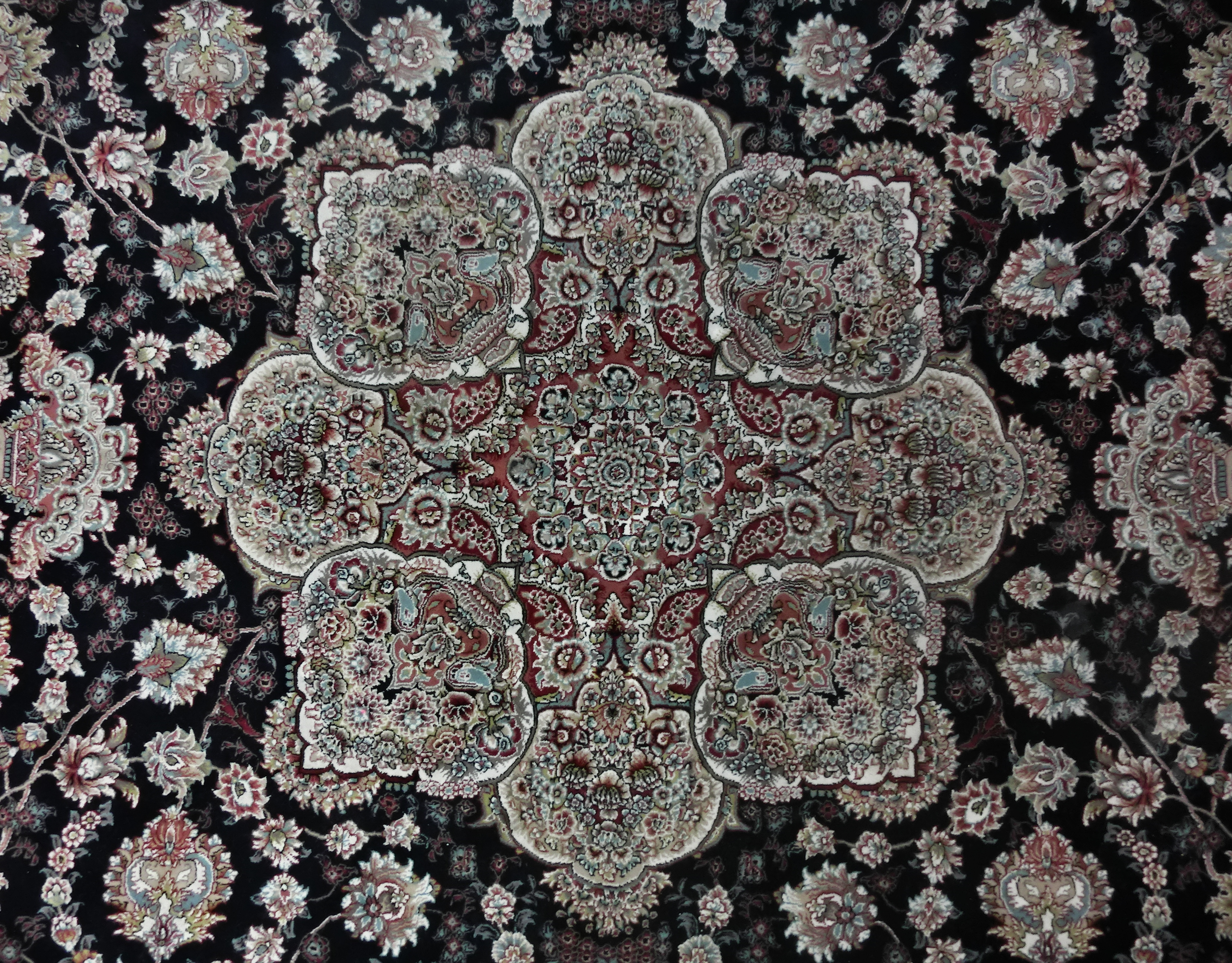 Toranj - special circular design of Iranian carpets